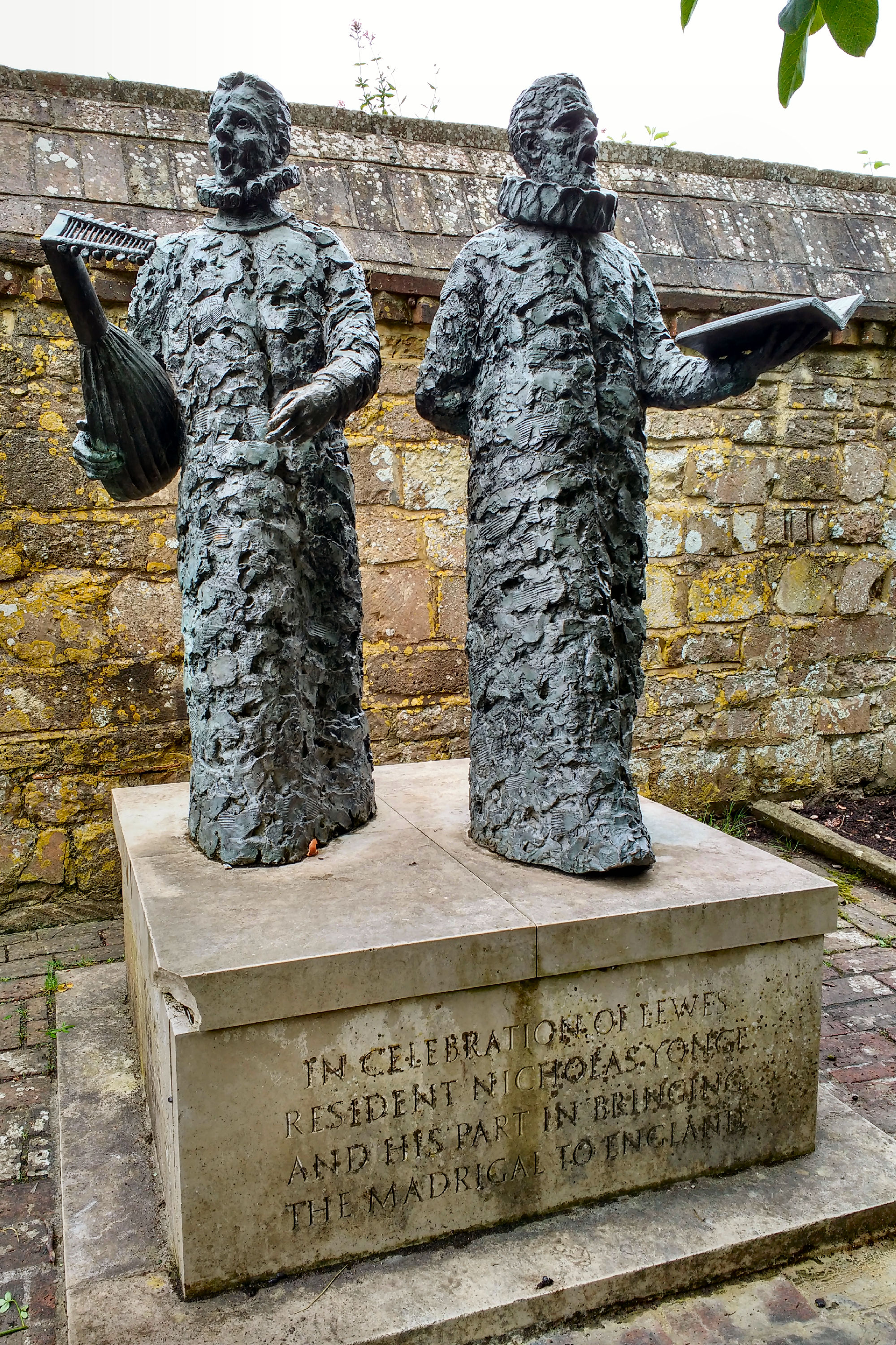 Grange Gardens Lewes. Nicholas Yonge Madrigal sculpture by Austin Bennett. Commissioned by the Nicholas Yonge Society in 2000.